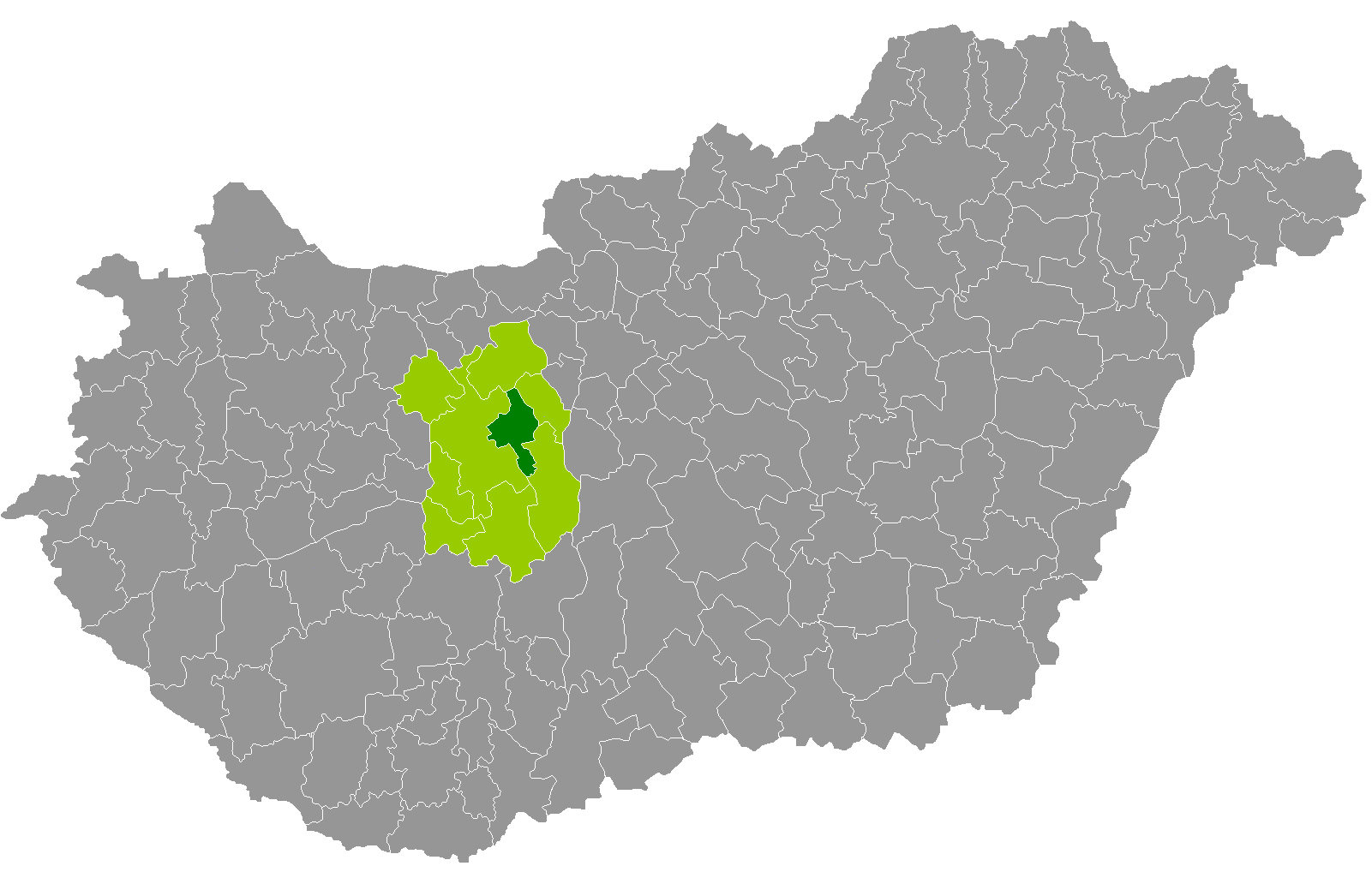 Location of Gárdony District, Fejér, Hungary